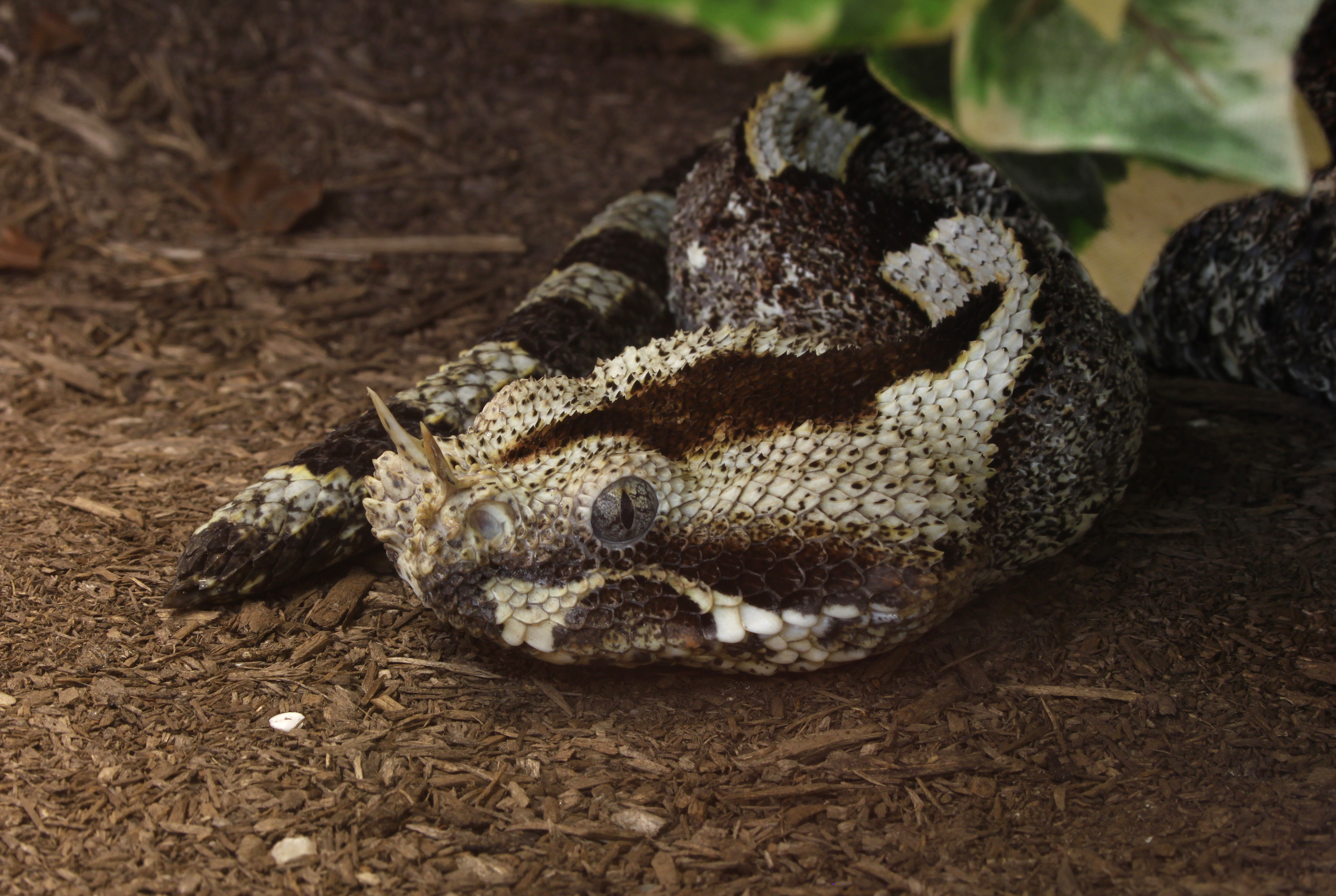 Rhinoceros Viper or River Jack, Bitis nasicornis, Family: Viperidea, Location: Germany, Scheidegg, Reptilienzoo